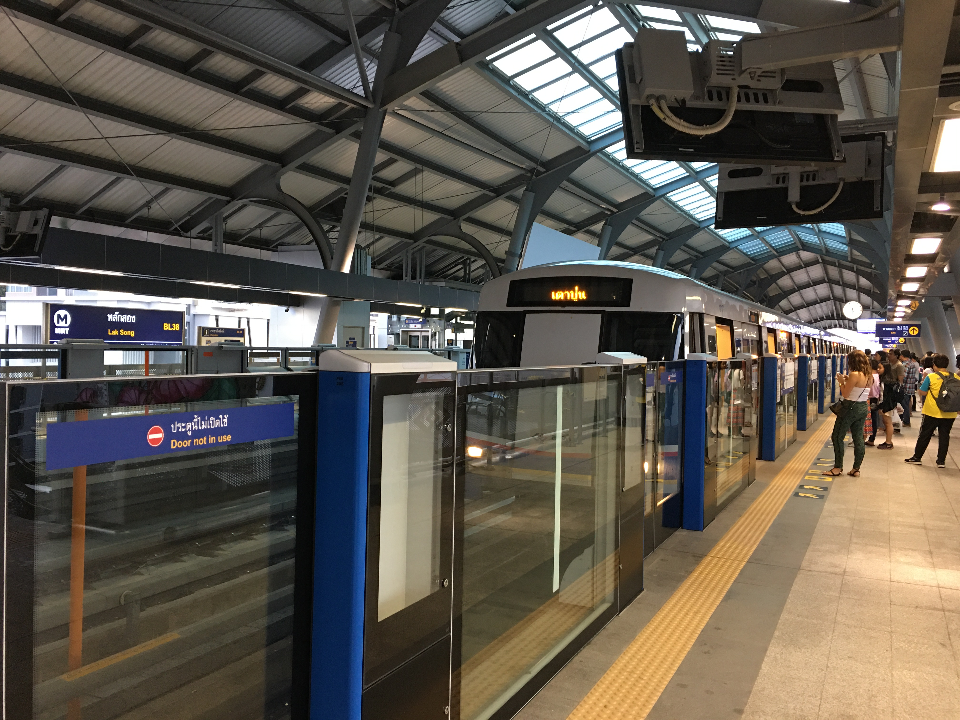 Train at platform no.2 (towards Tao Poon via Hua Lamphong) of Lak Song MRT Station, Bangkok.